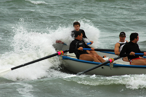 Life savers practicing on a life saving boat.